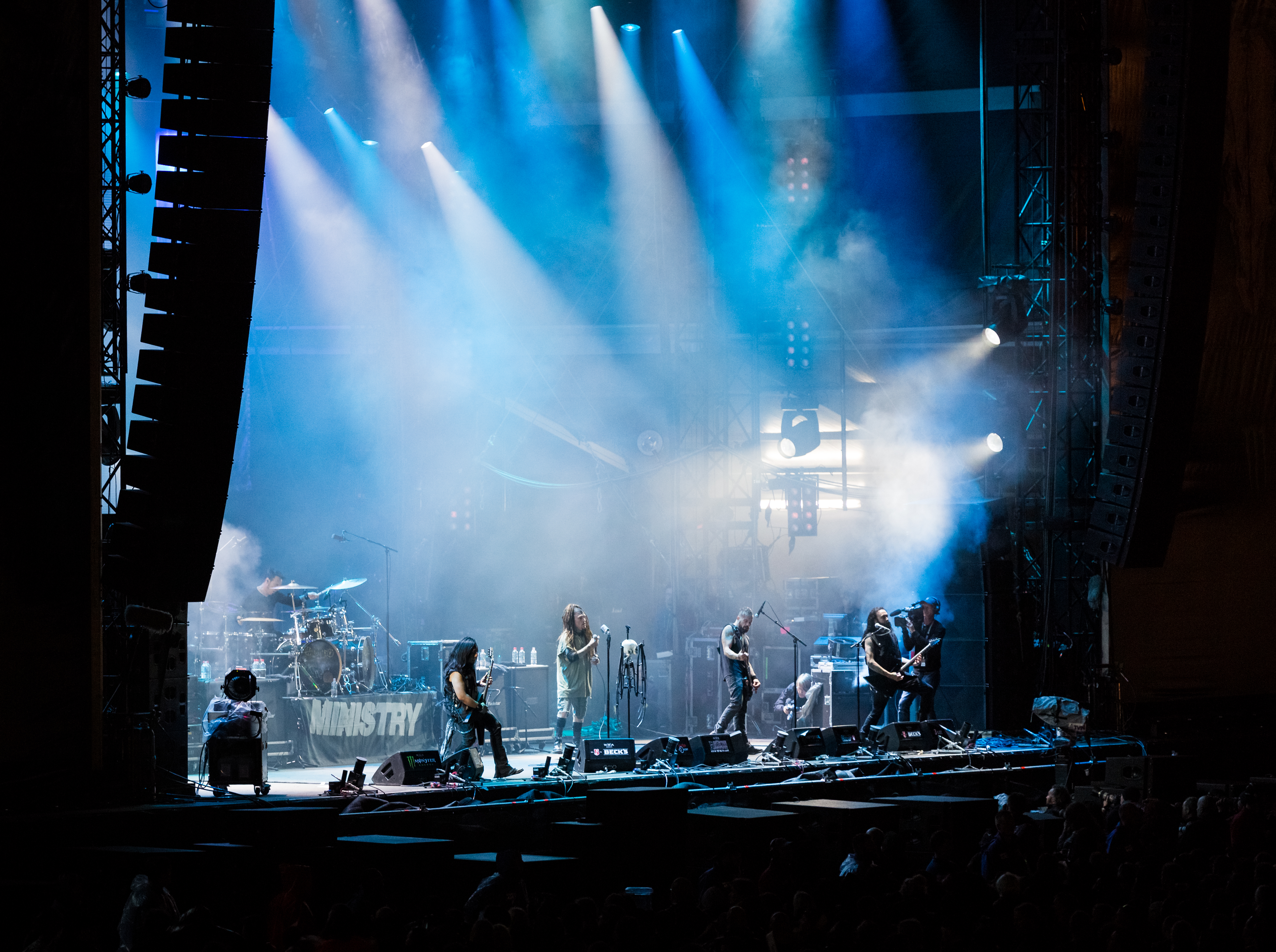 Ministry - Wacken Open Air 2016